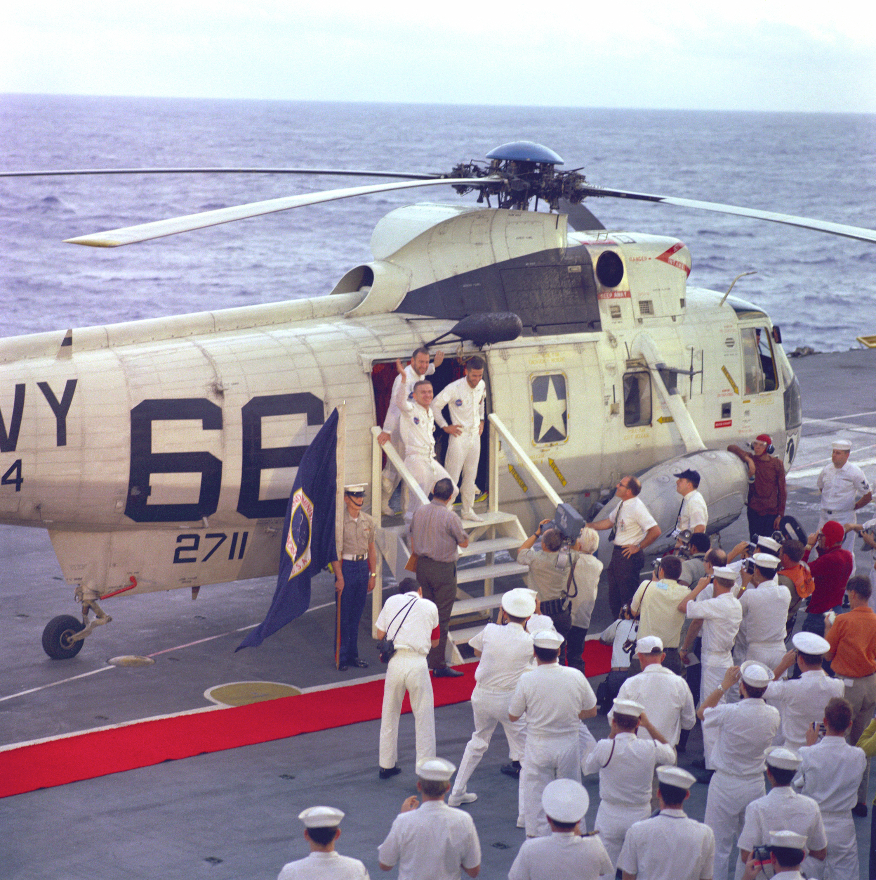 The Apollo 8 crew stands in the doorway of a Sikorsky SH-3D Sea King recovery helicopter (BuNo 152711) after arriving aboard the carrier USS Yorktown (CVS-10), recovery vessel for the historic initial manned lunar orbital mission. In left foreground is astronaut Frank Borman, Mission Commander. Behind Borman is astronaut James A. Lovell Jr., Command Module pilot; and on the right is astronaut William A. Anders, Lunar Module pilot. Apollo 8 splashed down at 10:51 hrs (EST), 27 December 1968, in the central Pacific Ocean, approximately 1,600 km (1,000 miles) south-southwest of Hawaii.